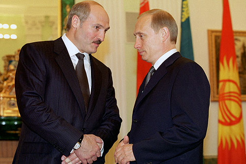 THE KREMLIN, MOSCOW. Before the start of a session of the Eurasian Economic Community Interstate Council with President Aleksandr Lukashenko of Belarus.